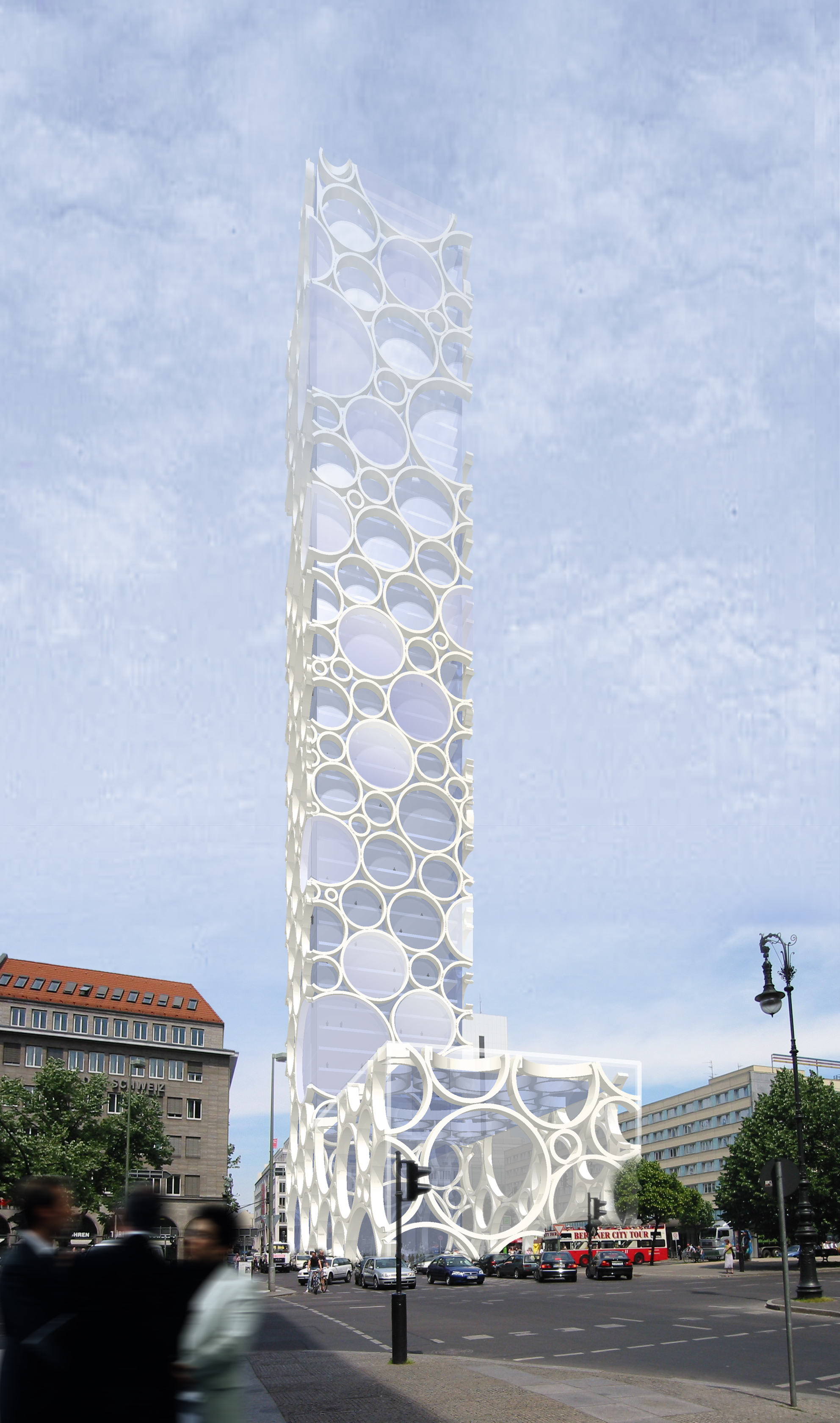 Bubble Highrise, Berlin